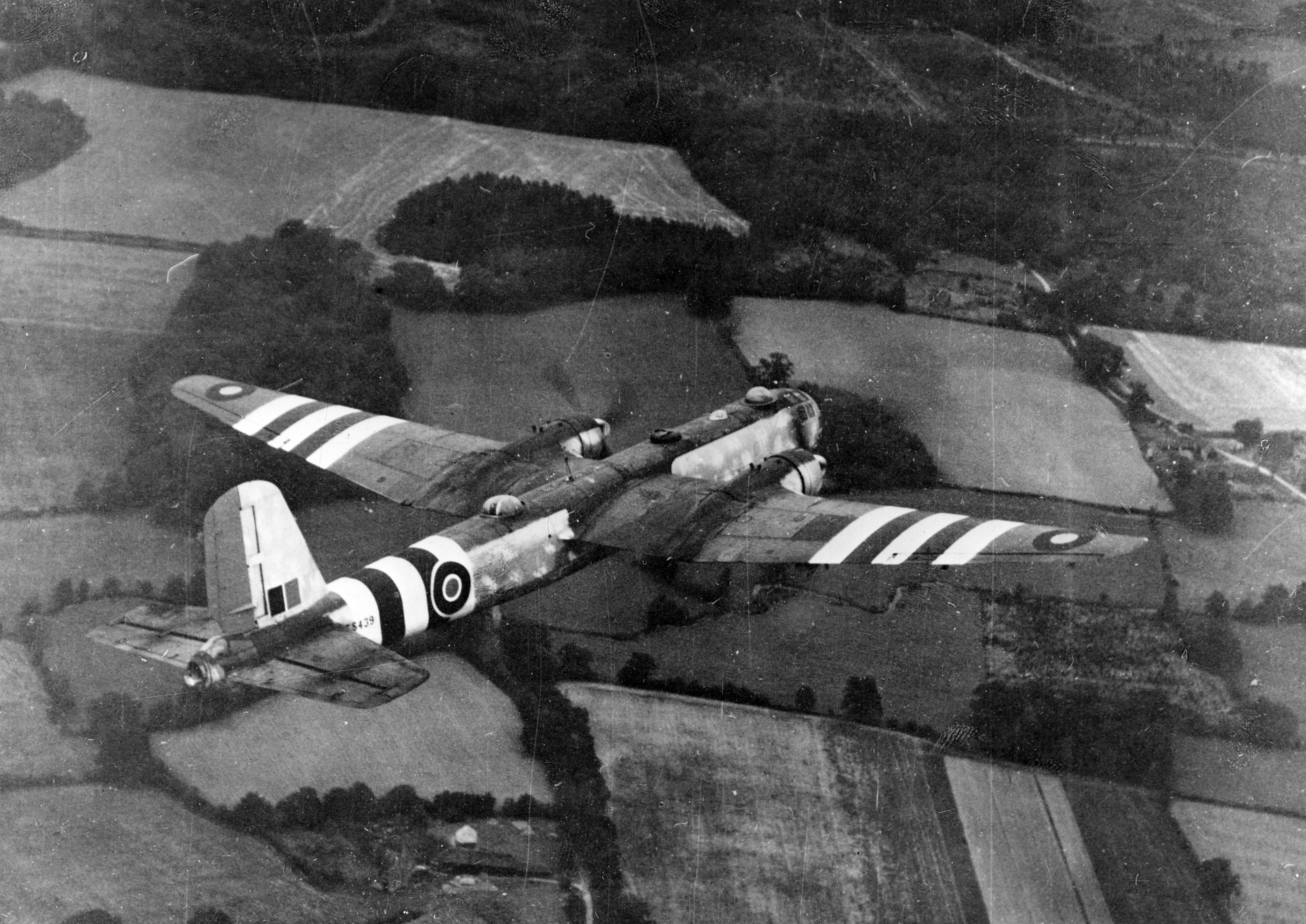 A German Heinkel He 177A-5 (W.Nr.550062, RAF serial TS439) being tested by the Royal Air Force after the Second World War.